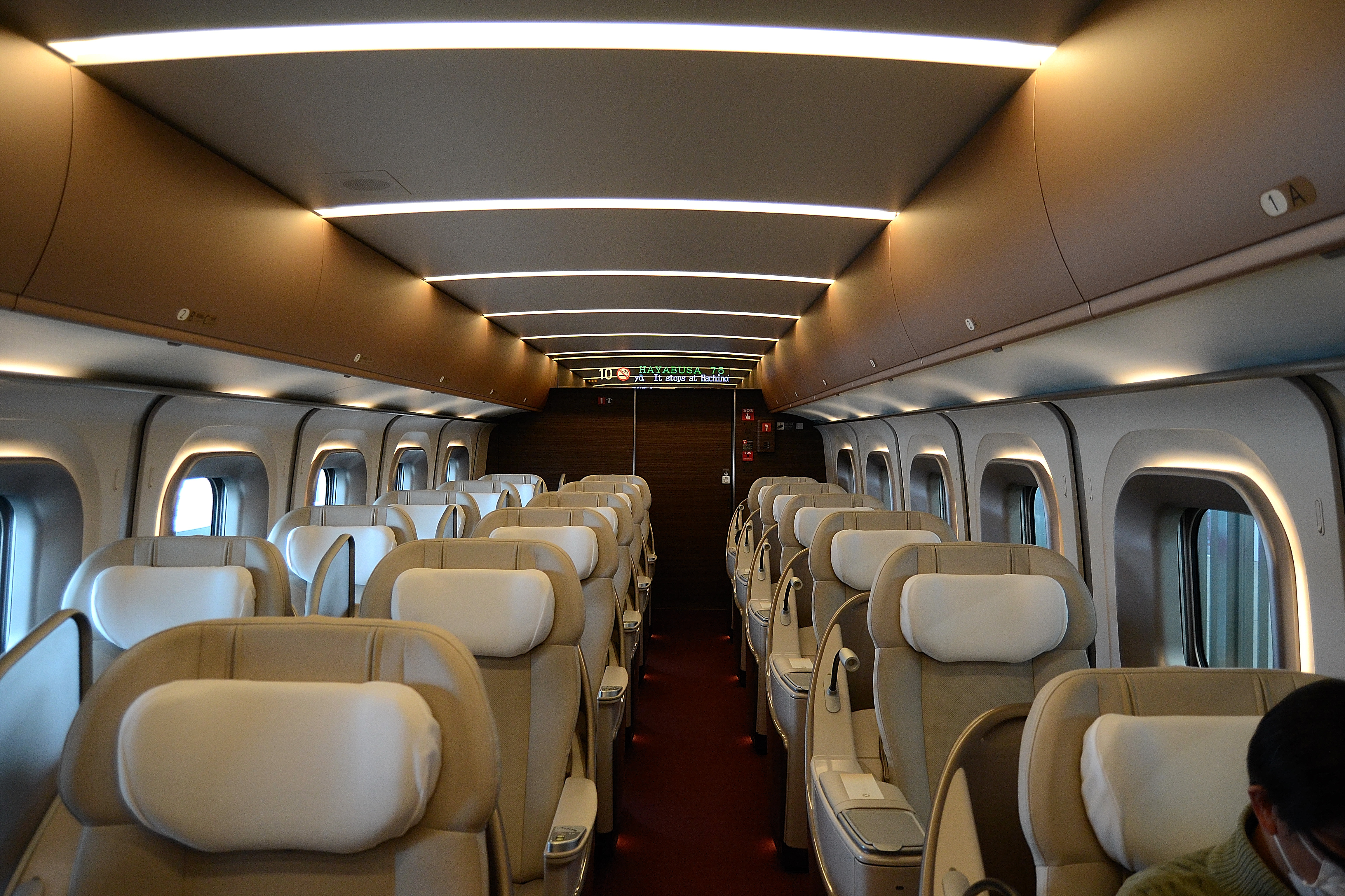 The interior of a JR East E5 series shinkansen "Gran Class" car (car 10)